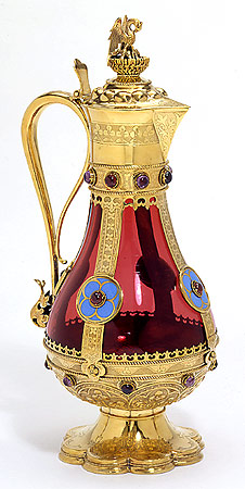 Flagon, ruby glass, silver-gilt mounts, stones and enamels, Birmingham 1858-9, mark of John Hardman & Co, designed by John Hardman Powell V&A Museum no. M.39-1972 A flagon was used in both Protestant and Roman Catholic worship to hold the communion wine during Holy Communion. The designer of this example, John Hardman Powell, became chief designer for Hardman’s in 1852. He was the pupil and son-in-law of the influential architect A.W.N. Pugin, who promoted the Gothic as the true Christian style. The flagon, which was shown at the International Exhibition of 1862, continues the Pugin style.